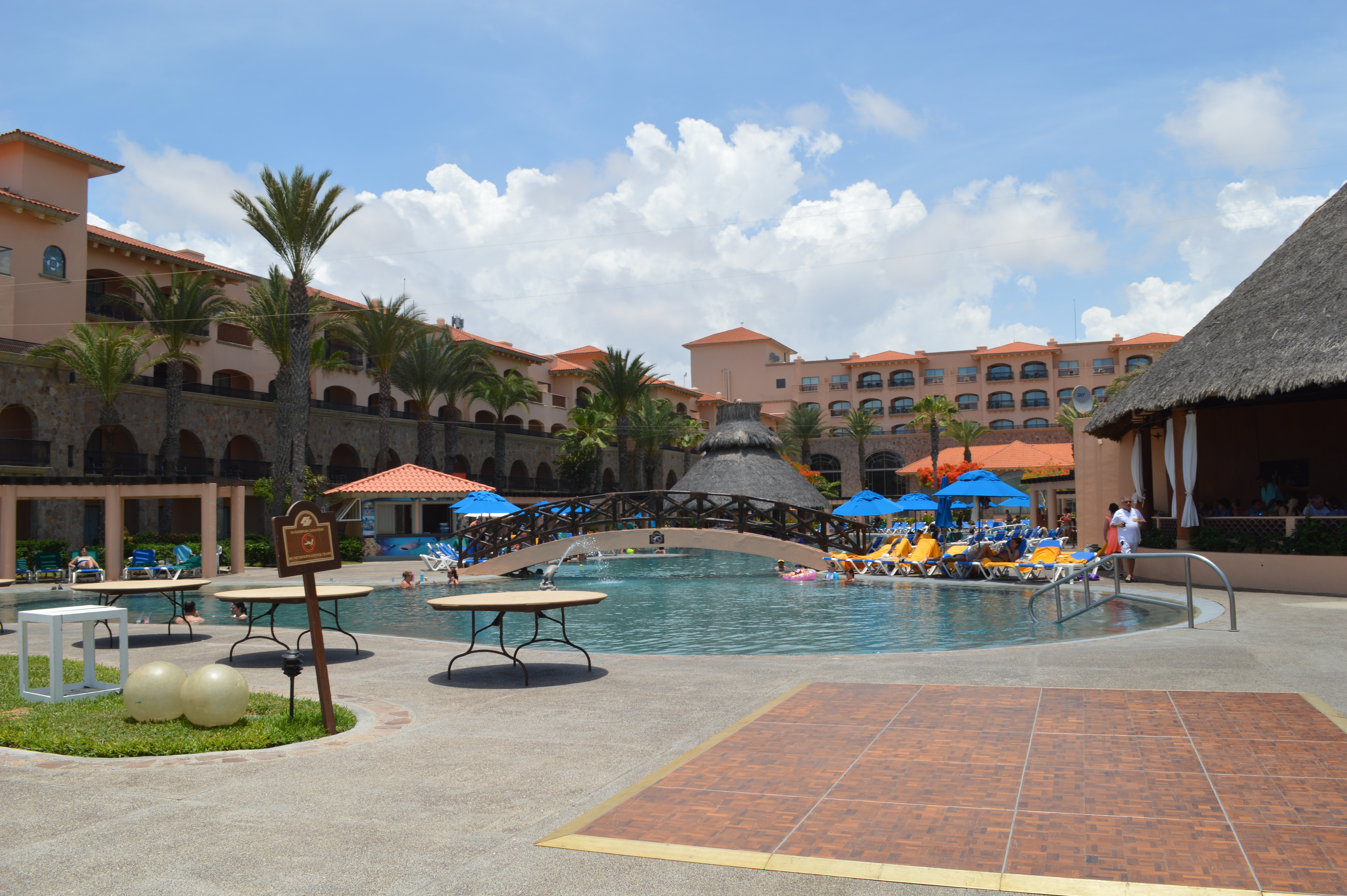 Pool area of the Royal Solaris resort in San José del Cabo, Baja California Sur